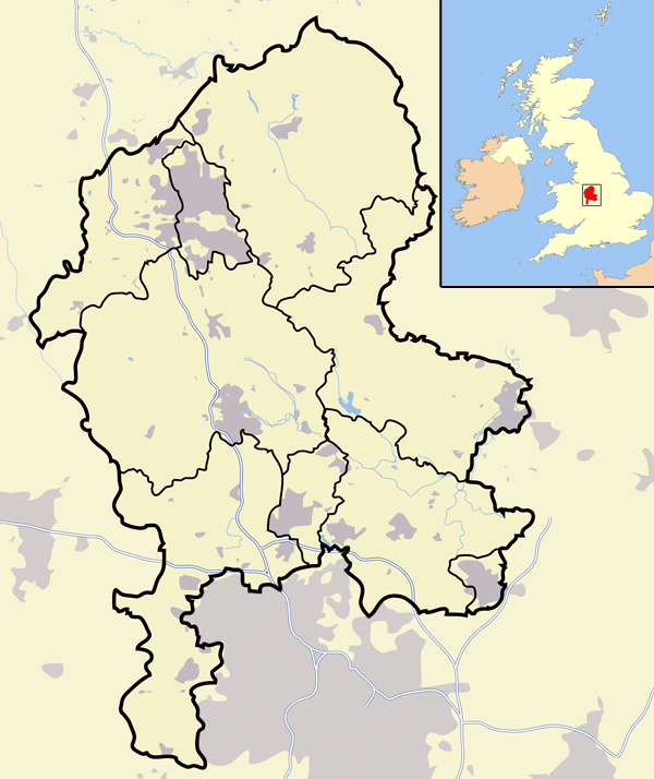 Map of the county of Staffordshire, in England, United Kingdom